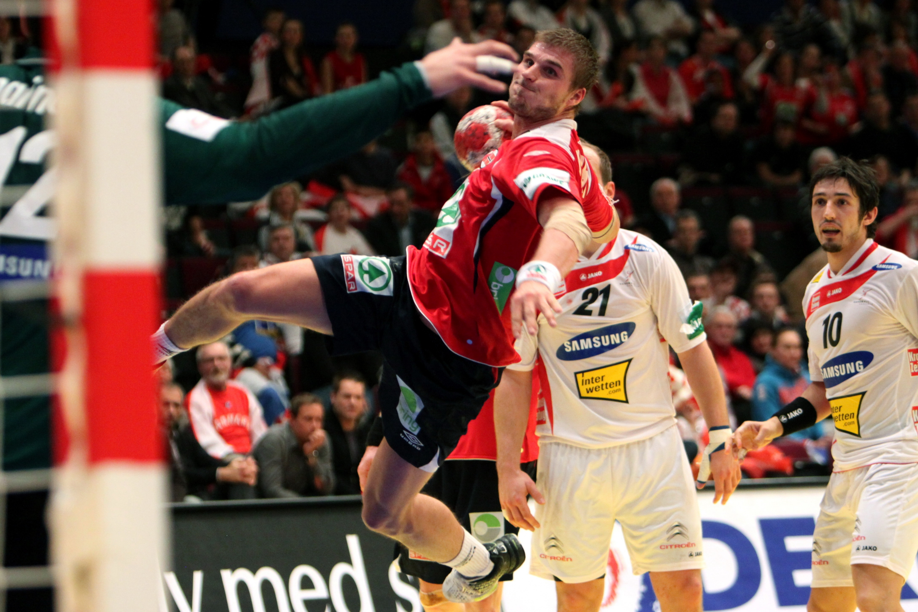 2010 European Men's Handball Championship Group D: Norway vs Austria 30:27 — Bjarte Myrhol (Austria national handball team) scores against Austria national handball team) Roland Schlinger (21) and Lucas Mayer in the Background